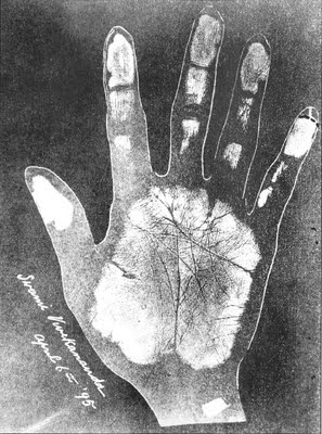 Swami Vivekananda's right palm impression